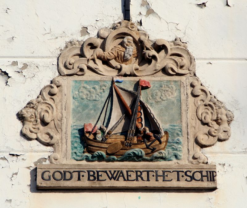 Gablestone at Korte Dijk/Houtmarkt, Haarlem, The Netherlands. Text: God saves the ship, date of the stone: 1630